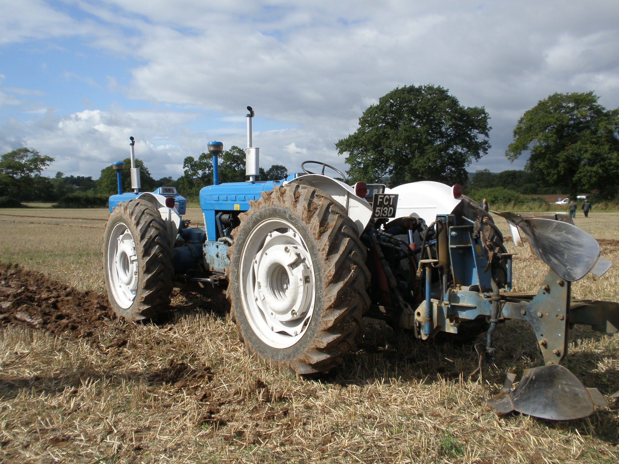 Doe Dual Drive 130 tandem tractor, The Forest of Arden Agricultural Society 62nd Hedging and Ploughing Match, St Giles Farm, Spernal, Studley, Warwickshire, United Kingdom